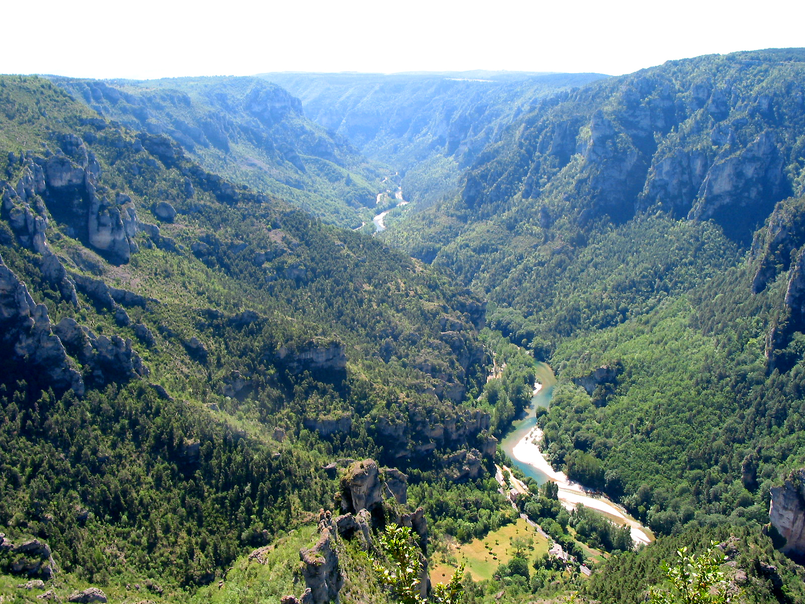 Saint-Georges-de-Lévéjac Lozère - France, the Gorges du Tarn - The cirque des Baumes seen from the point sublime.